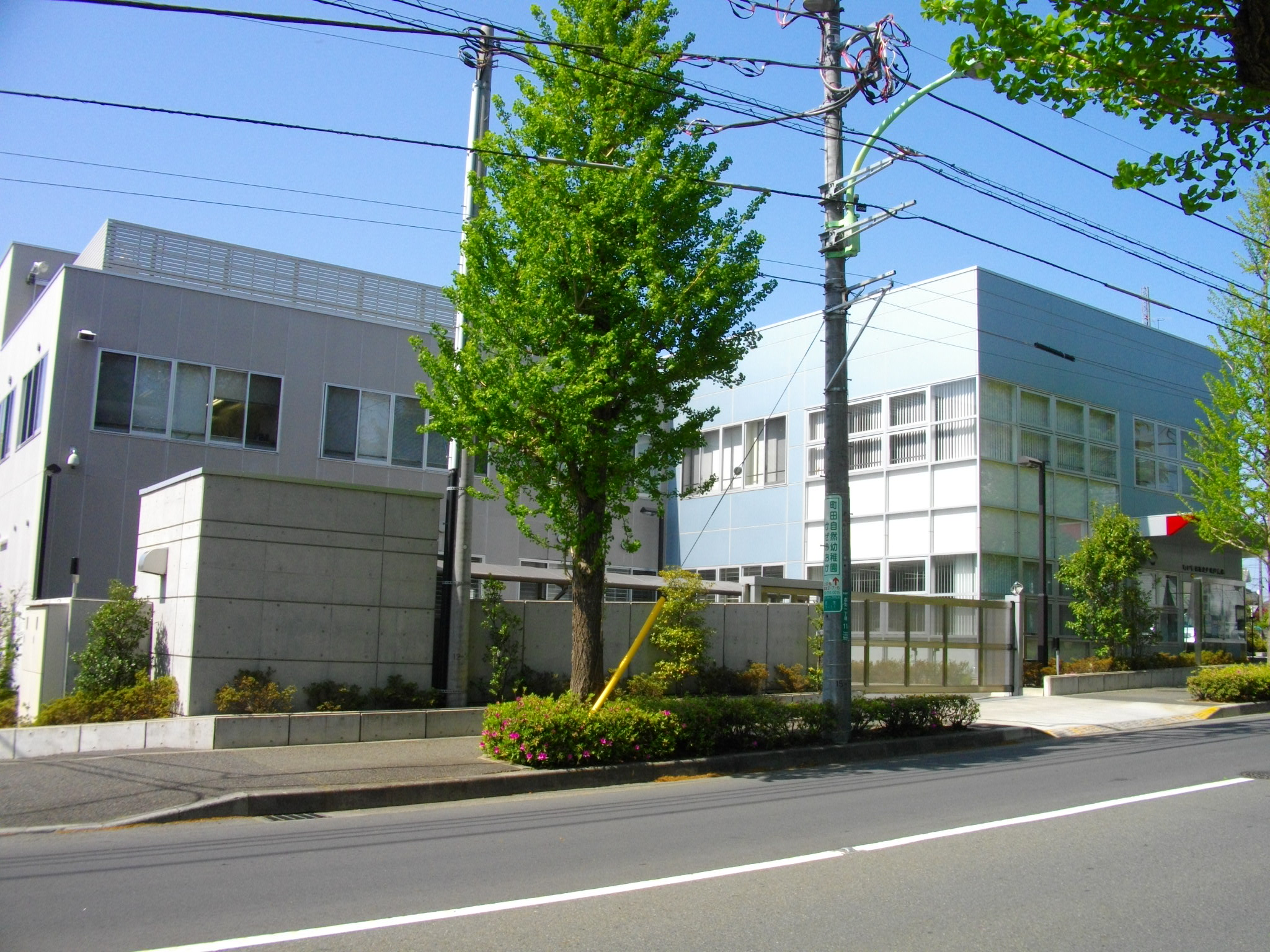 Tadao Chiku-Koban(Large-size Koban)